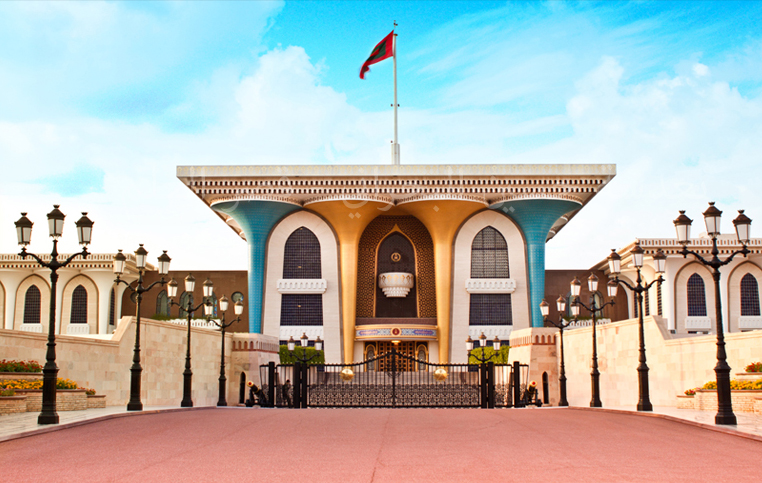 Al-Alam Palace in old Sana'a, oman,muscat.